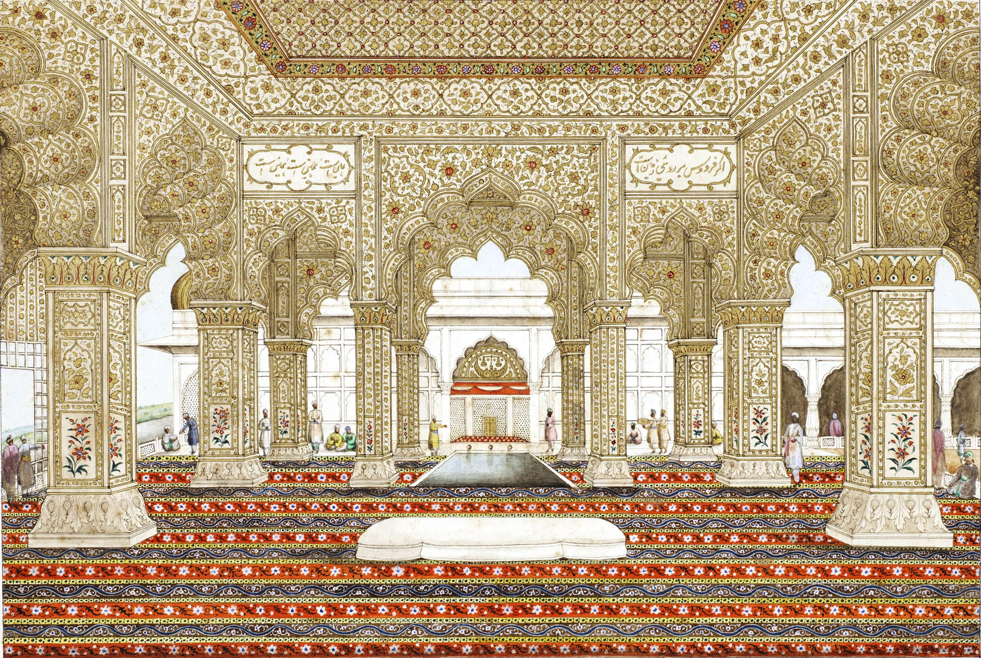 The interior of the Dewan Khas - and the Tusbee Khana in the Red Fort. A series of 31 paintings by Ghulam Ali Khan (fl. 1817-55), consisting of views of monuments in and around Delhi, and including four portraits of the last Mughal Emperor Bahadur Shah II (reg. 1837-58) and his sons. Watercolour and gold on paper, black margin rules, three title pages, three sheets of portraits, all with identifying inscriptions in English and in Persian in nasta'liq script in black ink, the portraits with further inscriptions in nasta'liq script with the date November 1852 (Christian date written in Arabic), in later mounts, loose in contemporary green leather-covered despatch box, the lid embossed in gold DELHEE 1854. Size paintings 290 x 215 mm. and slightly smaller; mounts 318 x 394 mm.; box 435 x 365 x 110 mm.